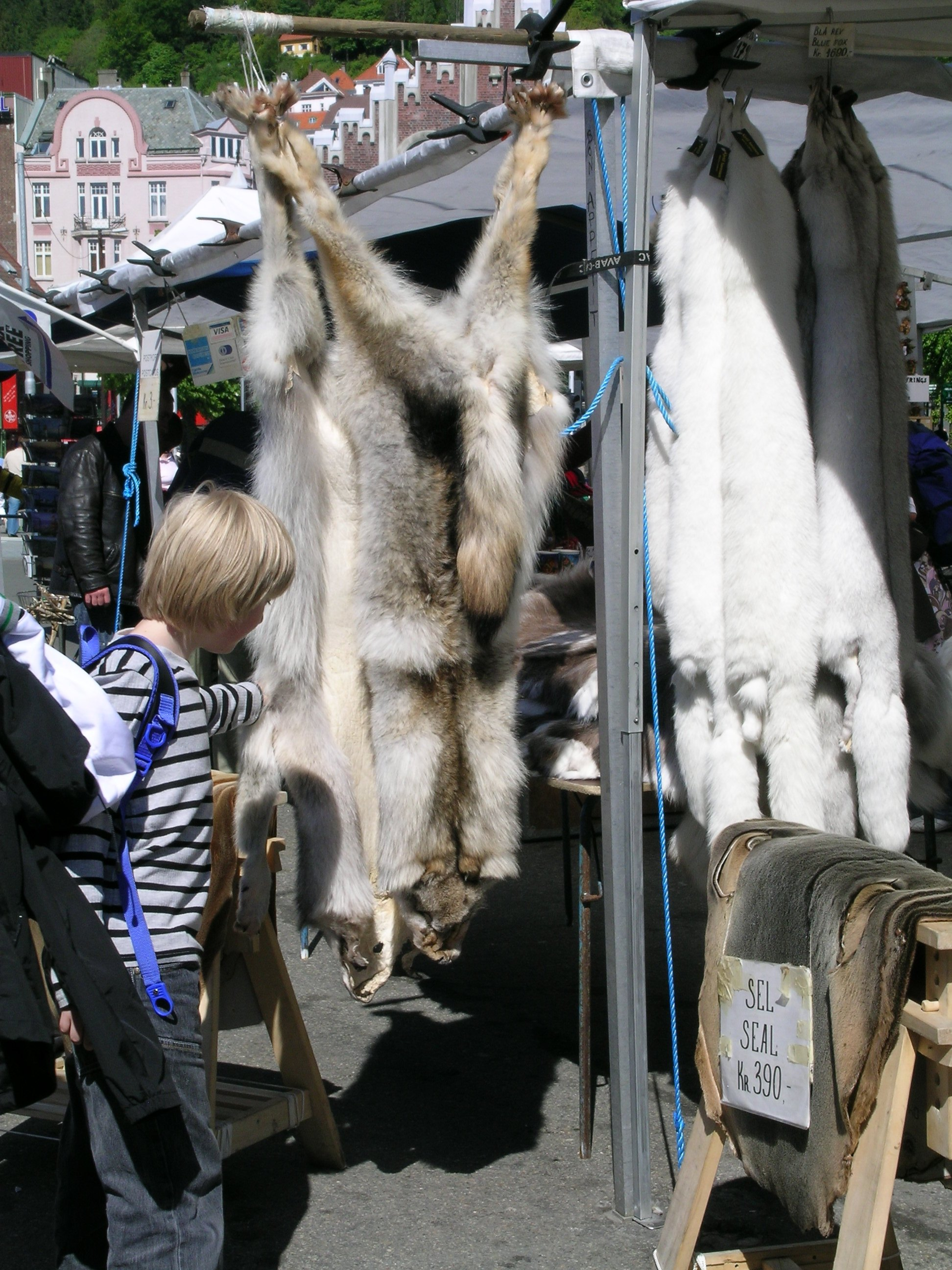 Fish market, Bergen, Norway